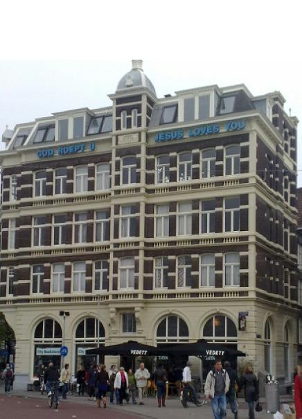 Building of Youth With A Mission in Amsterdam at the Prins Hendrikkade, near Central Station